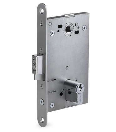 PERCo LB85.3 Mortise Electromechanical Lock